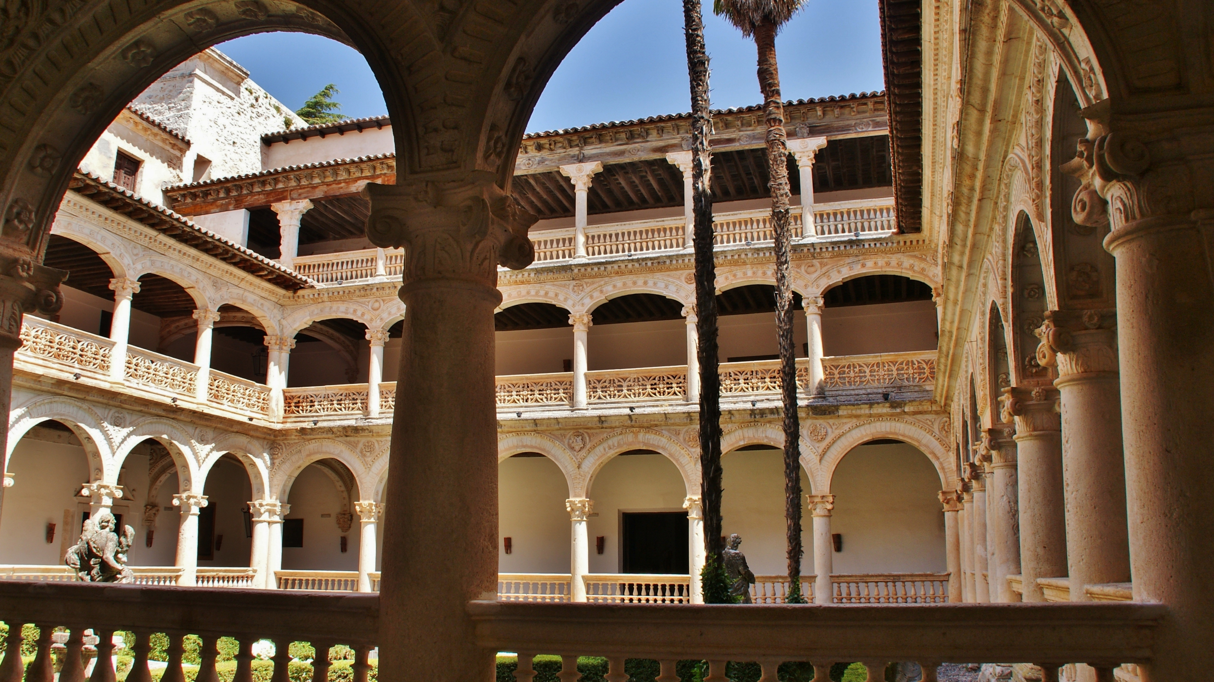 Monasterio de San Bartolomé, fue donde nació la Orden de San Jerónimo (O.S.H.). Edificado en 1474 sobre una ermita ya existente dedicada a San Bartolomé, que databa de 1330. Fue la casa madre de la Orden de San Jerónimo y fundado por Pedro Fernández Pecha y Fernando Yáñez de Figueroa. Lupiana, Guadalajara, Comunidad Autónoma de Castilla-La Mancha